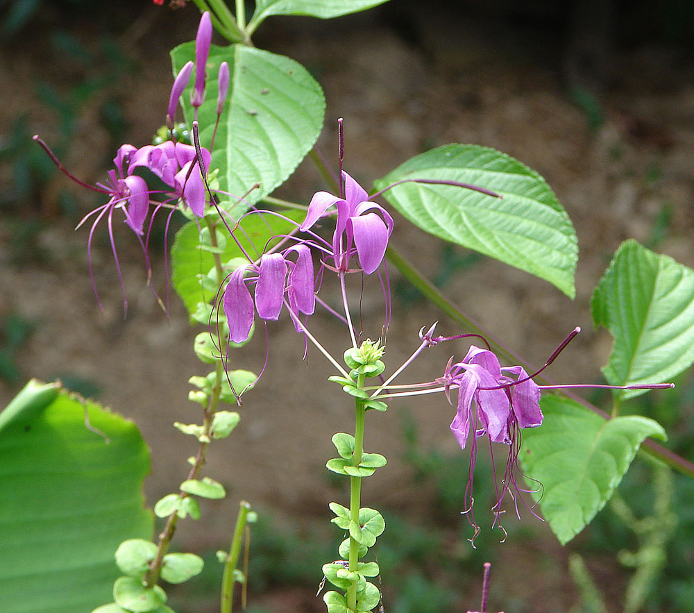 From the seasonally flooded zone of the Amazon River in Colombia.